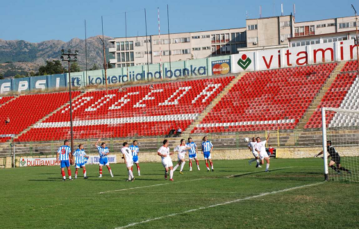 Picture of the Stadium Goce Delchev in Prilep